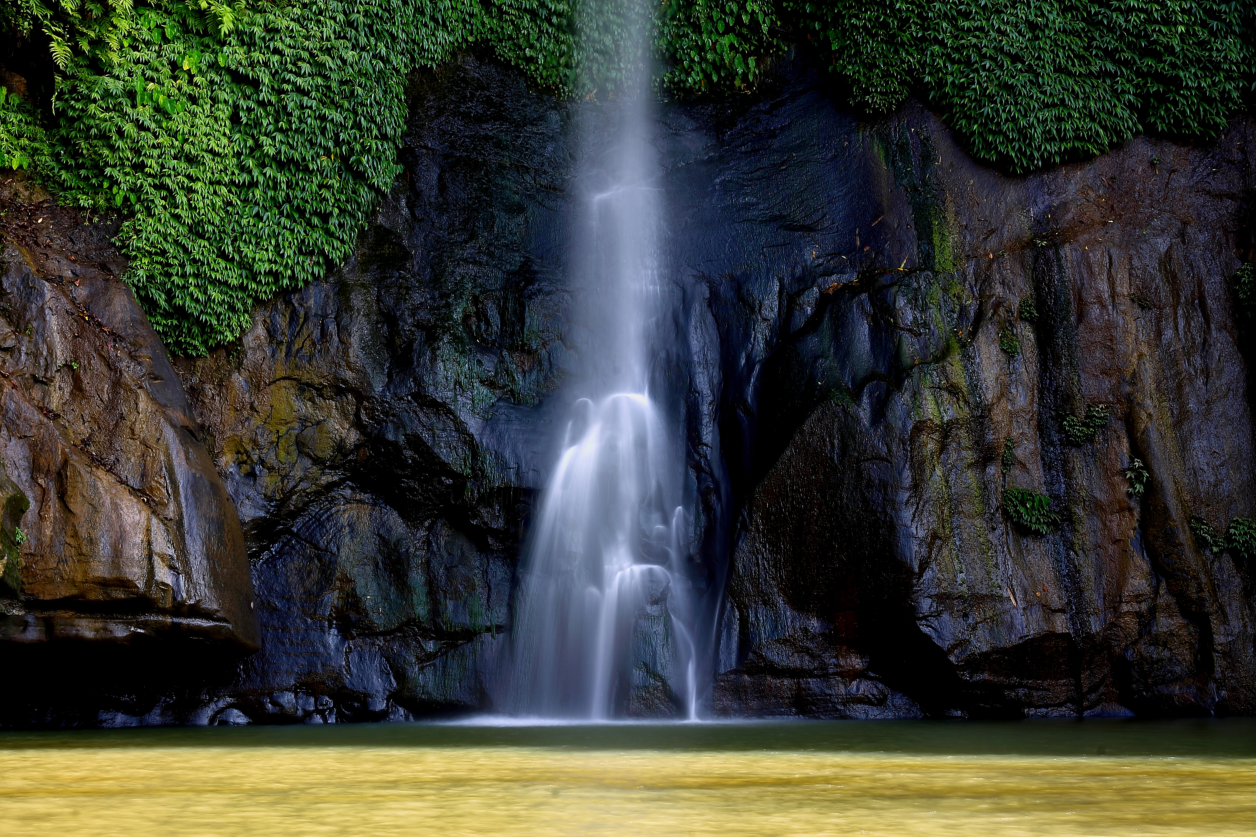 Madhabkunda waterfall